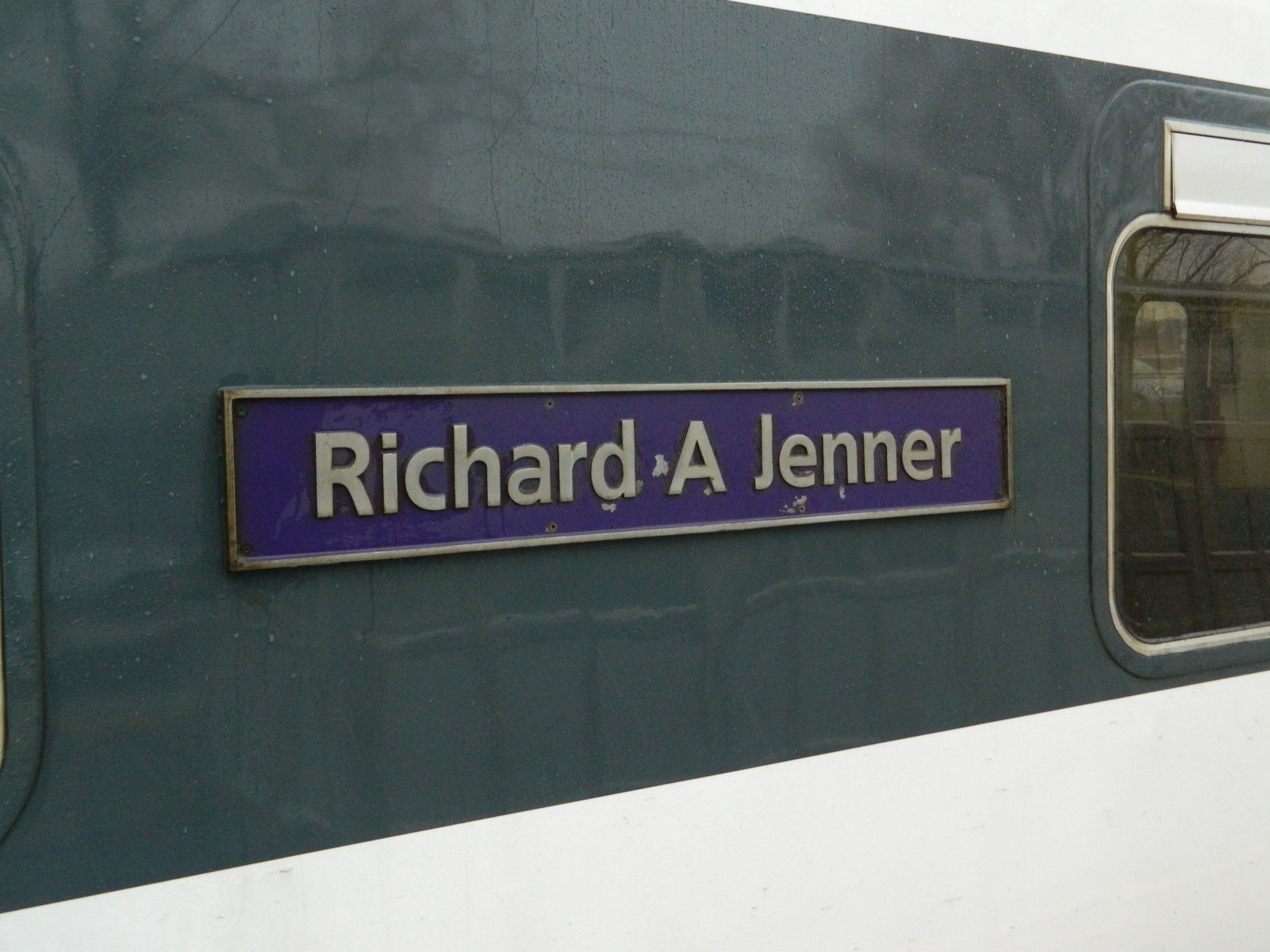 The nameplate on GA Class 317 unit 317348 (formerly operated by Great Northern), reading 'Richard A Jenner'.